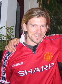 Swedish footballer Jesper Blomqvist.